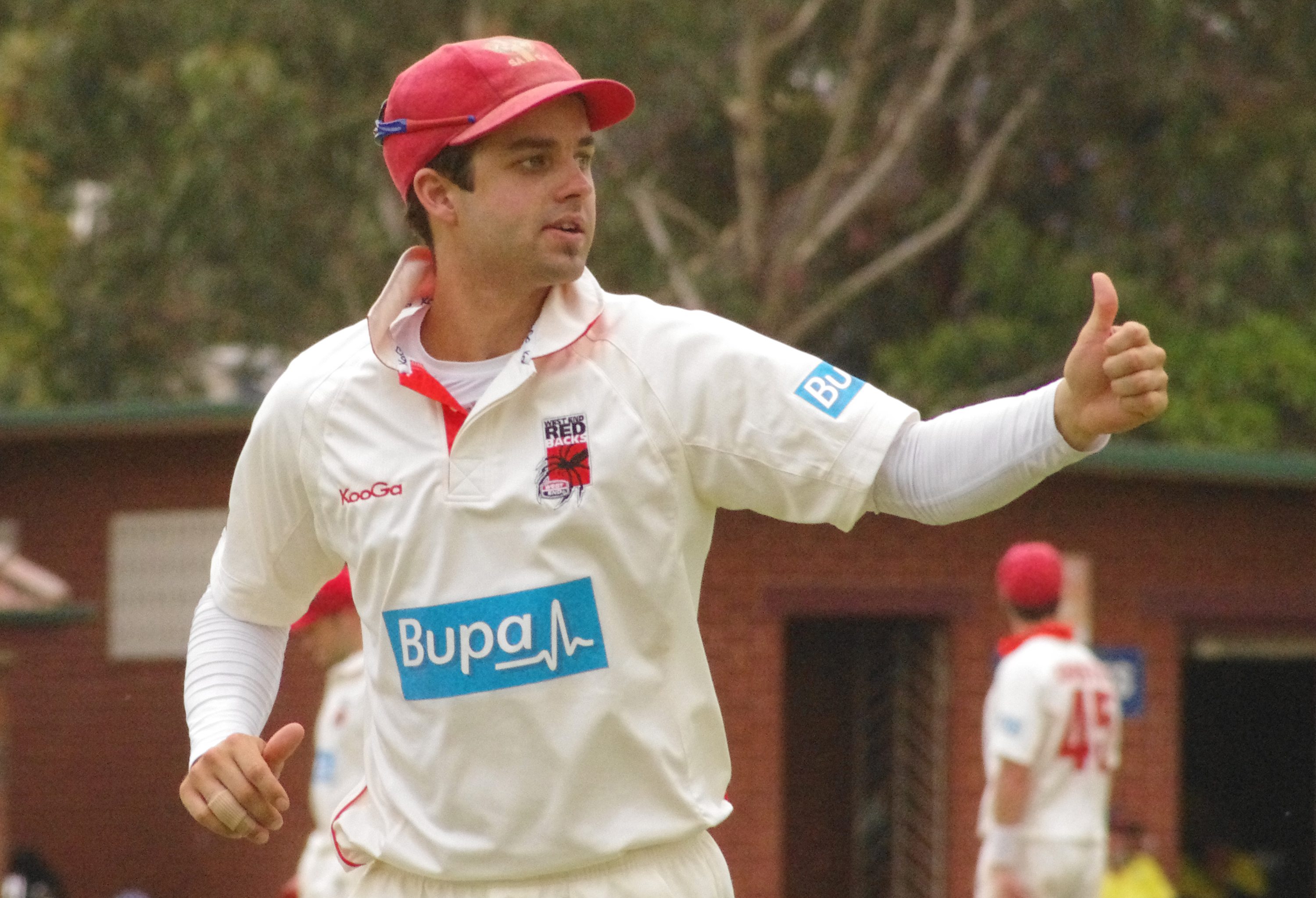 Australian cricketer Callum Ferguson